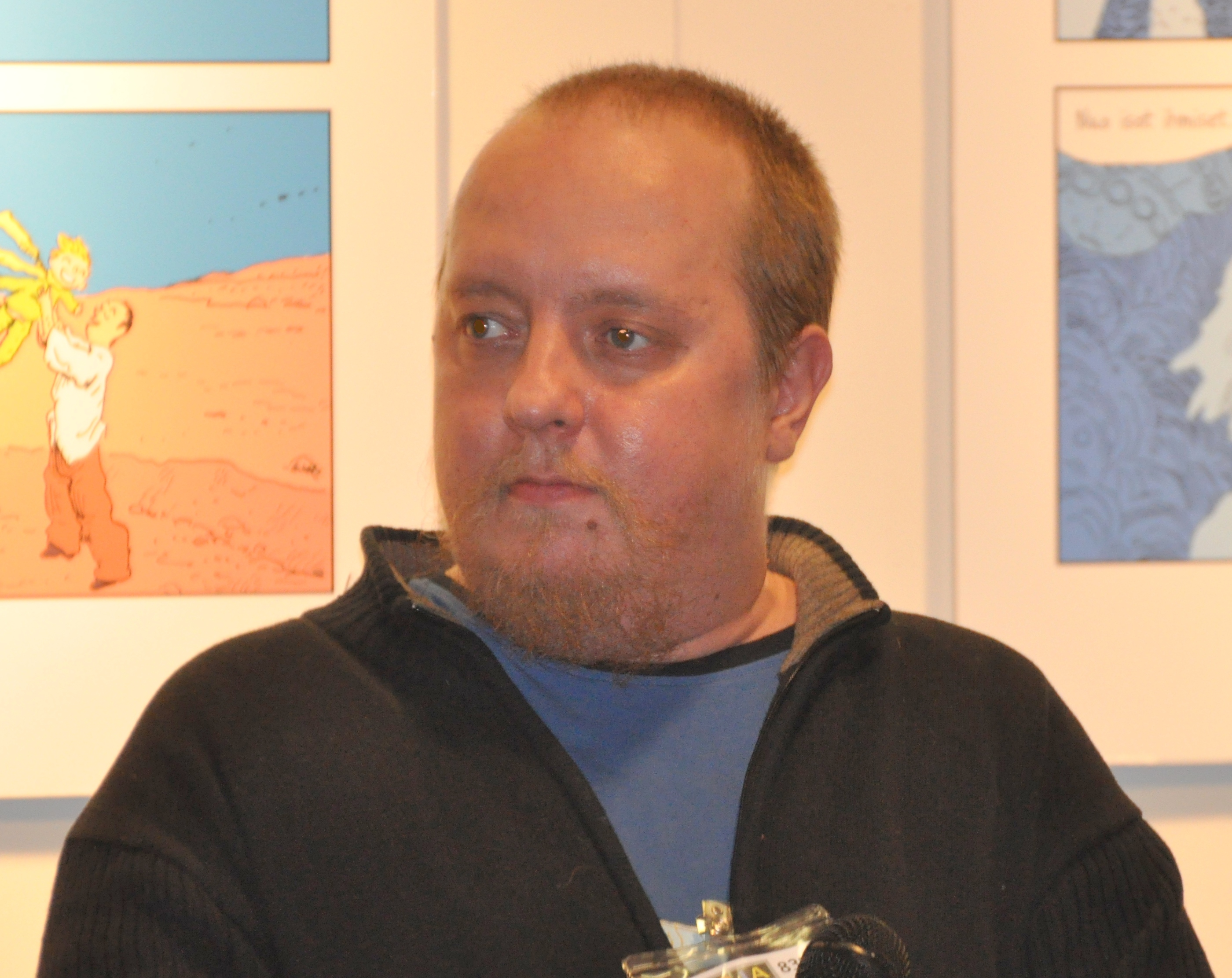 Finnish comics artist Kari Korhonen at the Helsinki Book Fair 2010.